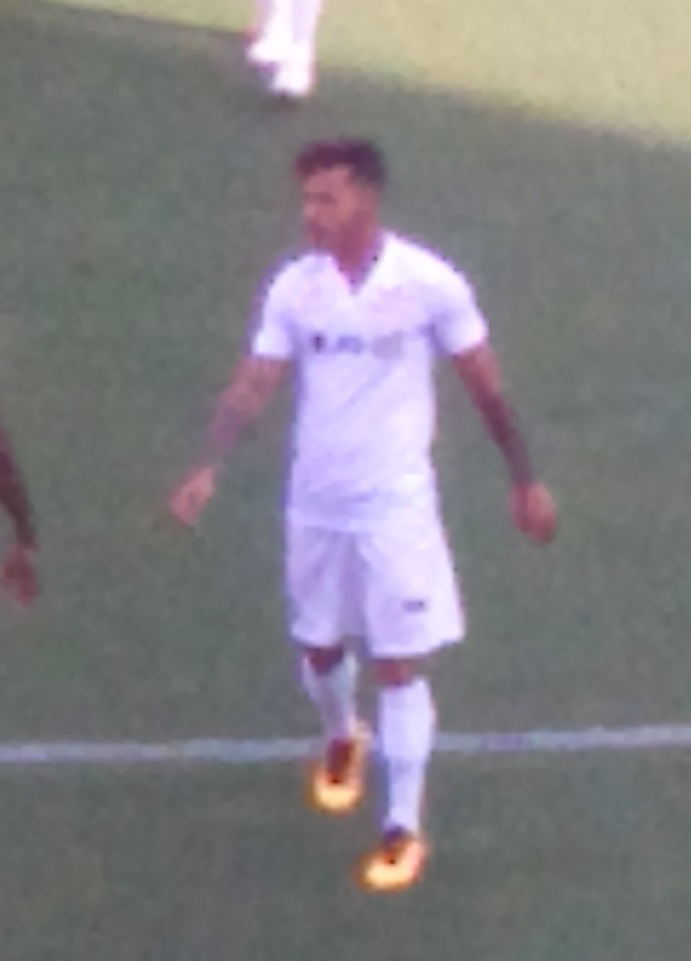 Zeca playing for Santos against São Bernardo on 30 January 2016, at the Vila Belmiro.